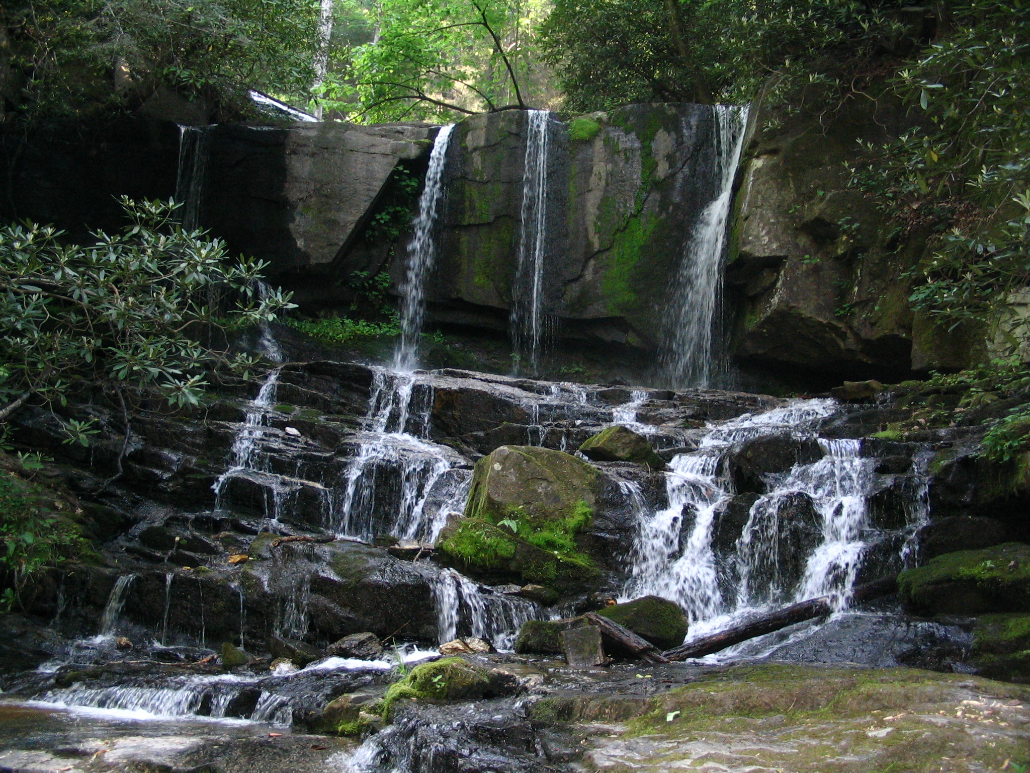 Cascade on Foothills Trail just east of Lake Jocassee, South Carolina, United States